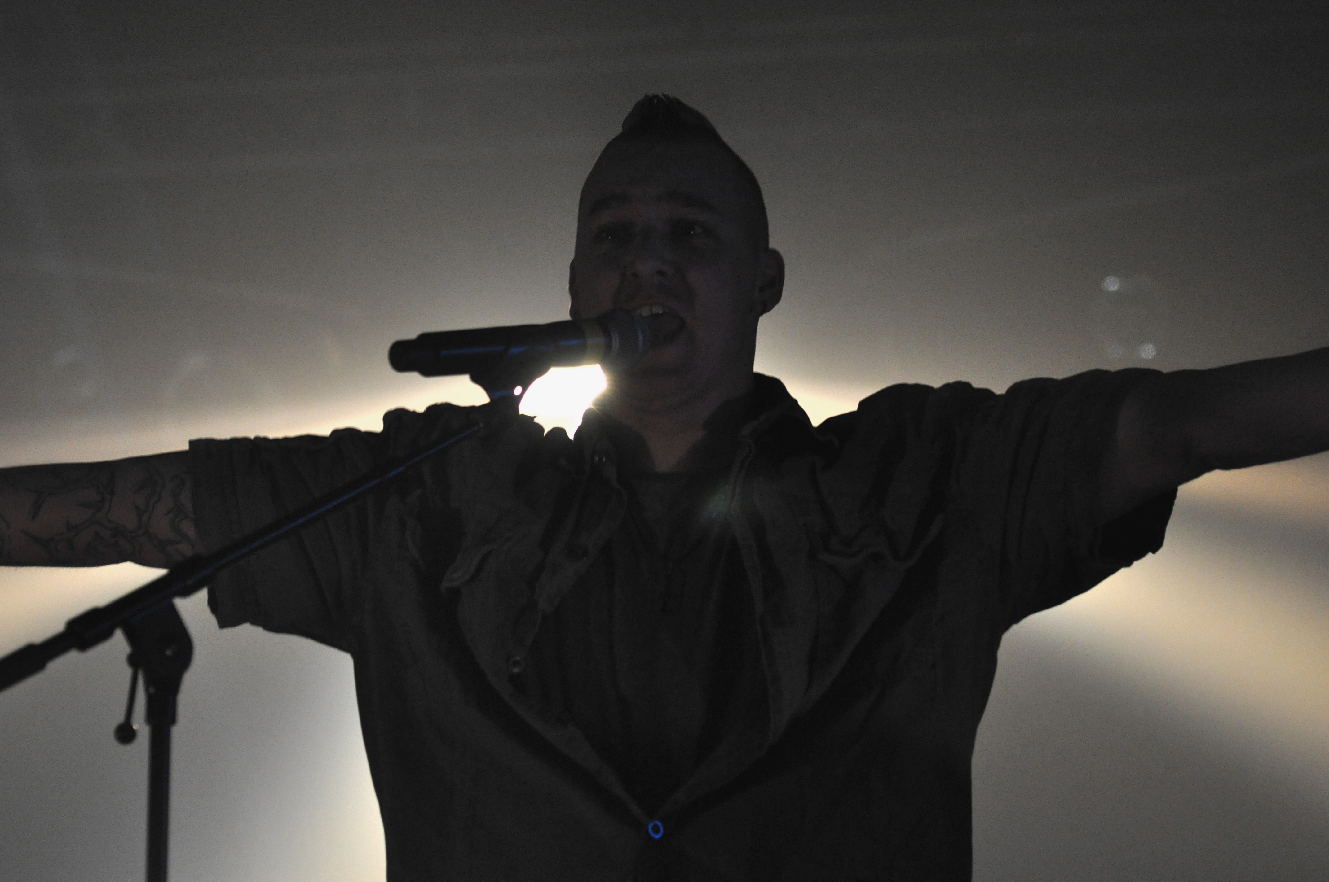 The Band Noisuf-X from Germany at e-tropolis 2013, Berlin